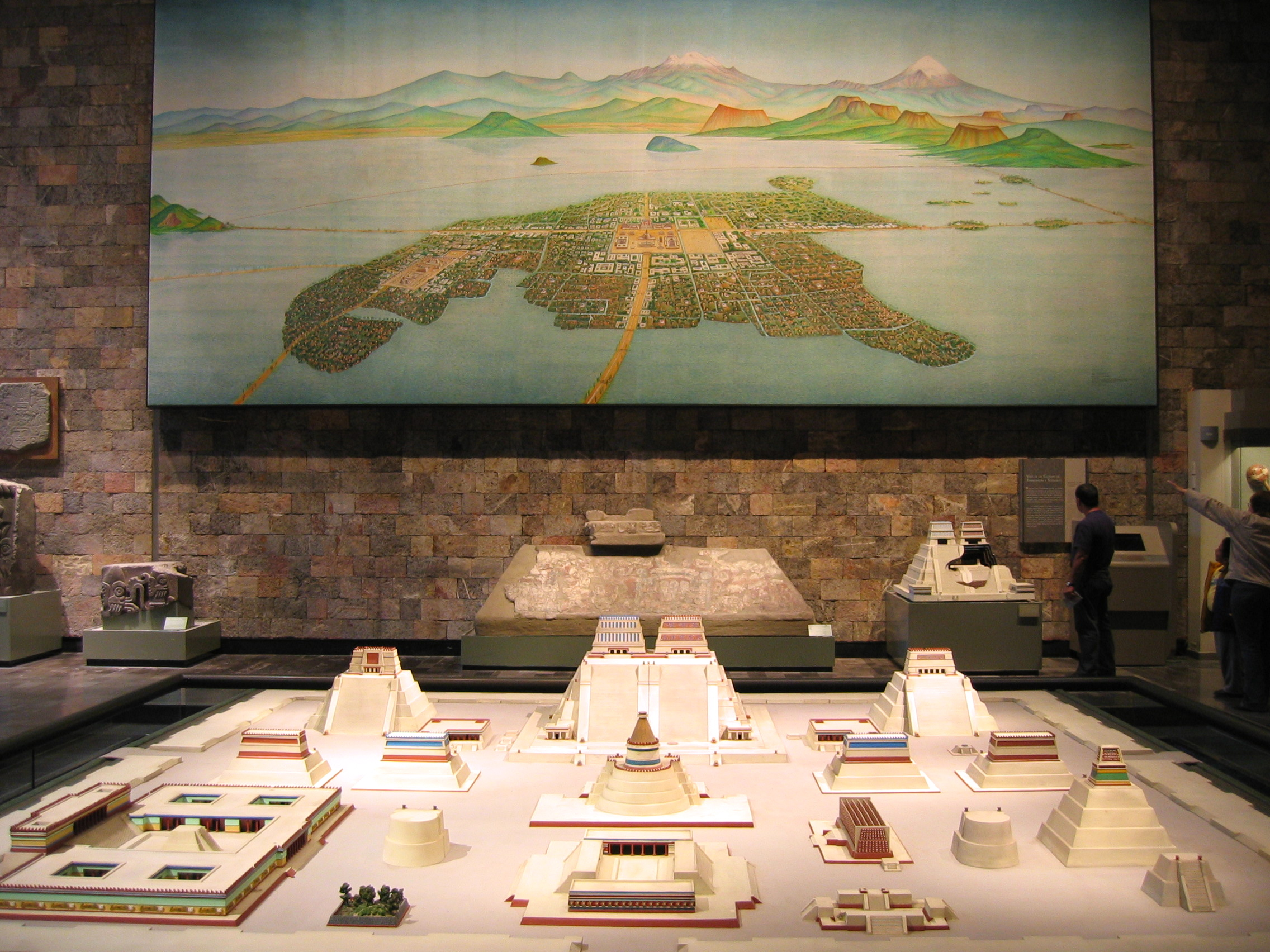 Reconstruction of Tenochtitlan, the capital of the Aztecs - the centre of modern Mexico City. (Ignacio Marquina, National Museum of Anthropology of Mexico City)